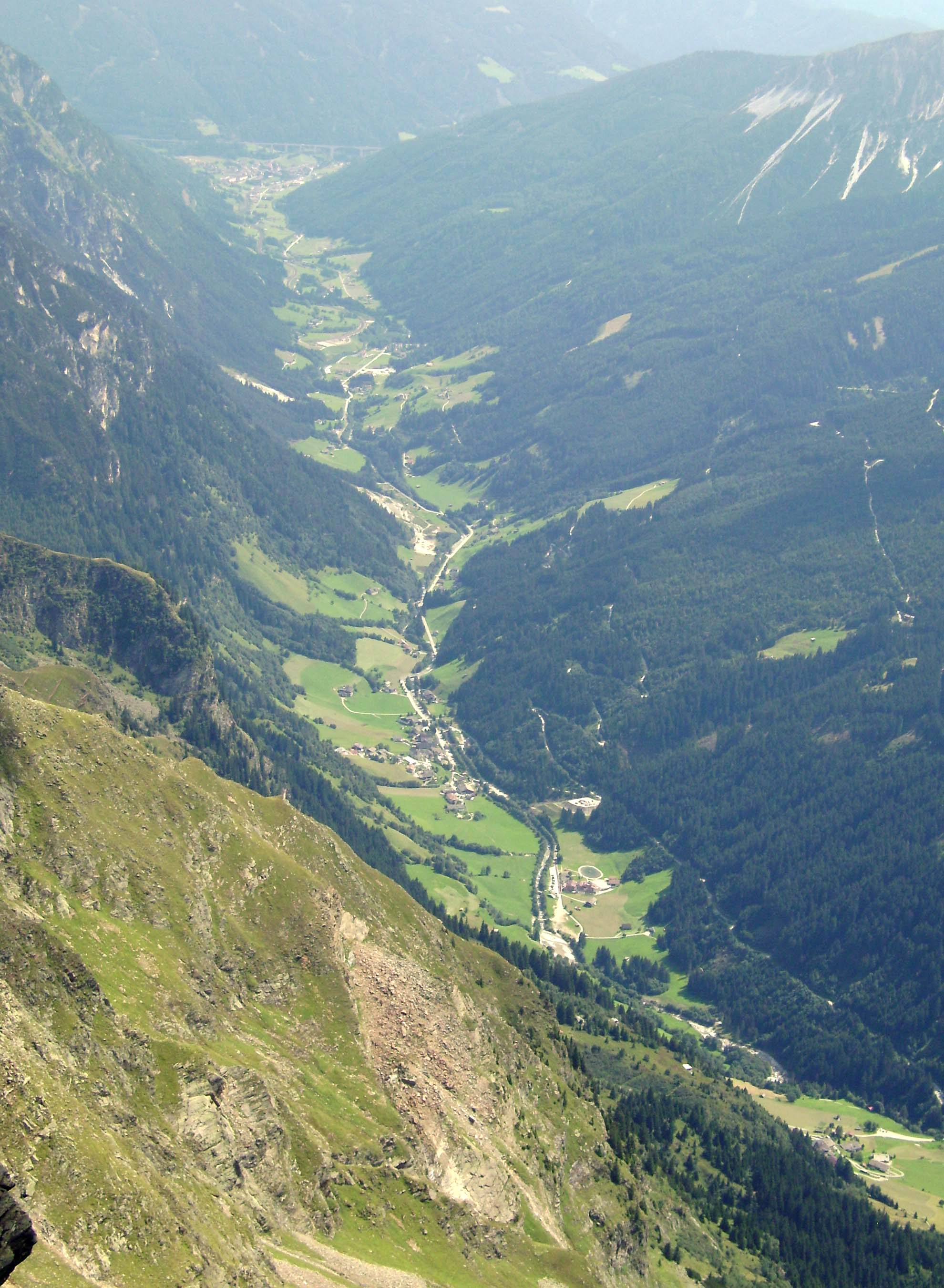 The Pflerschtal, South Tyrol, Italy